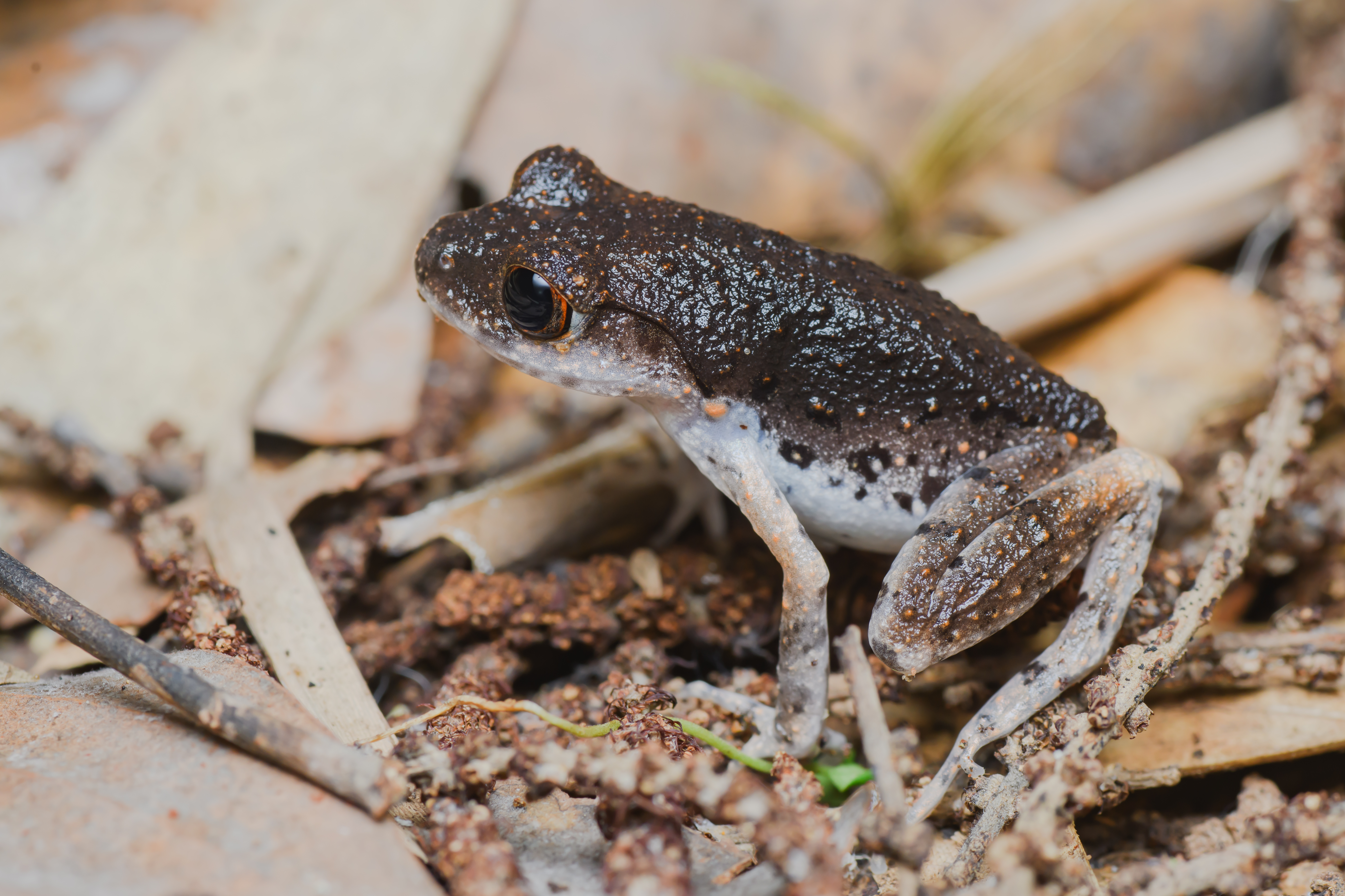 This photo is published under Creative Commons Attribution-Share-Alike Licence, means you are free to use this photo with attribution under same licence. For credits, please use following; Owner: Thai National Parks Link